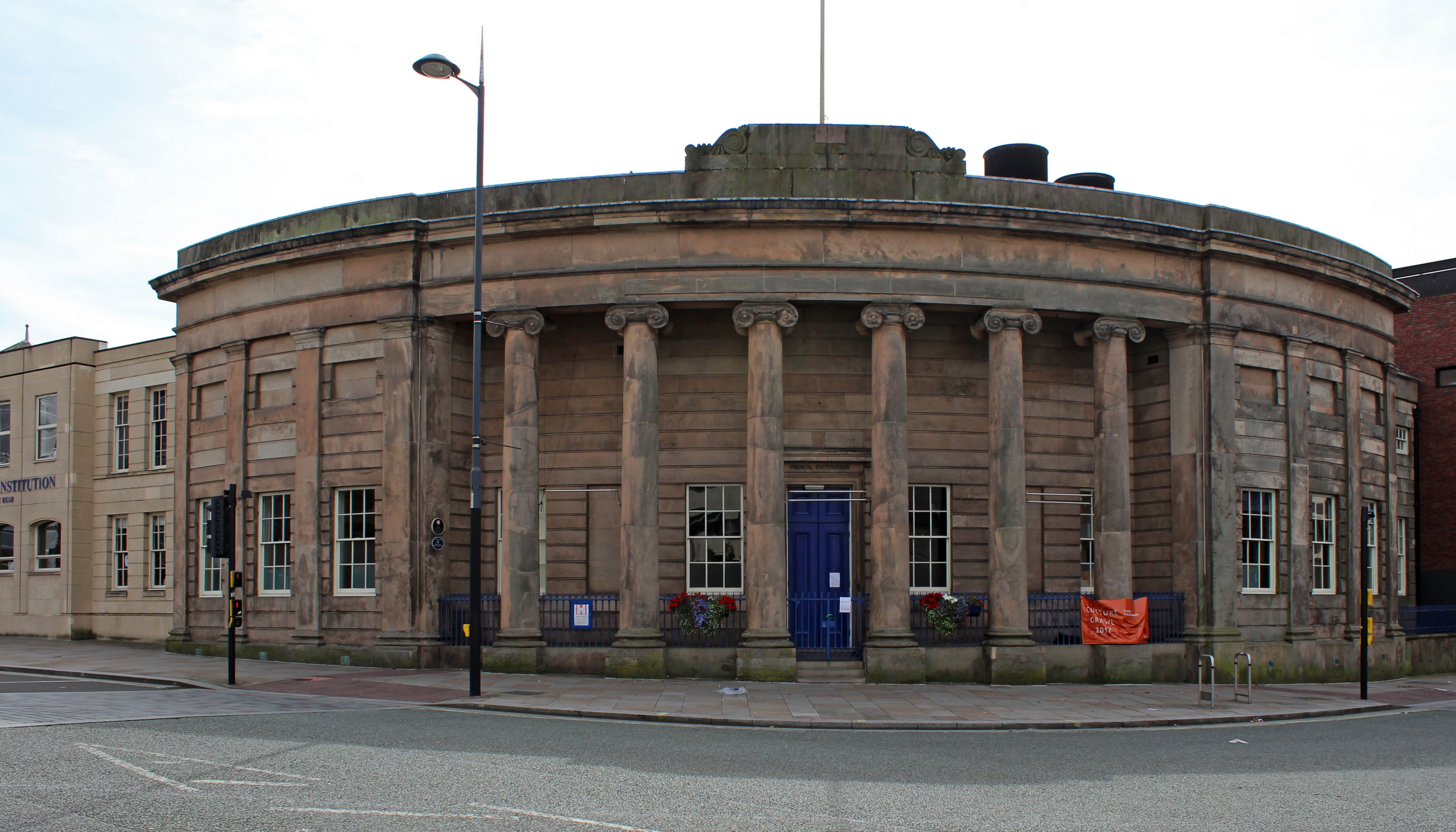 View across the junction